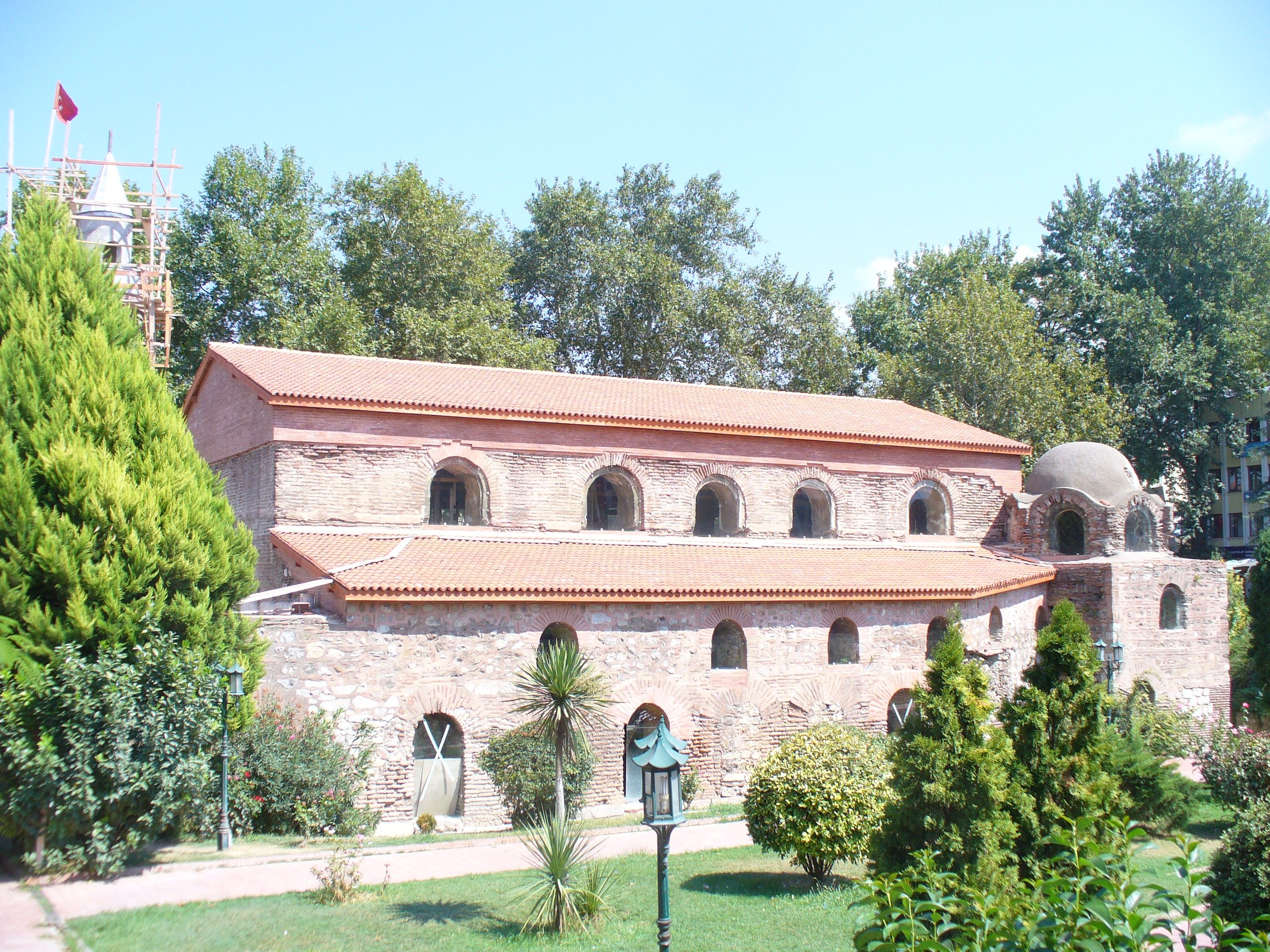 Remains of the Ayasofya in Iznik, as seen from the southwest.